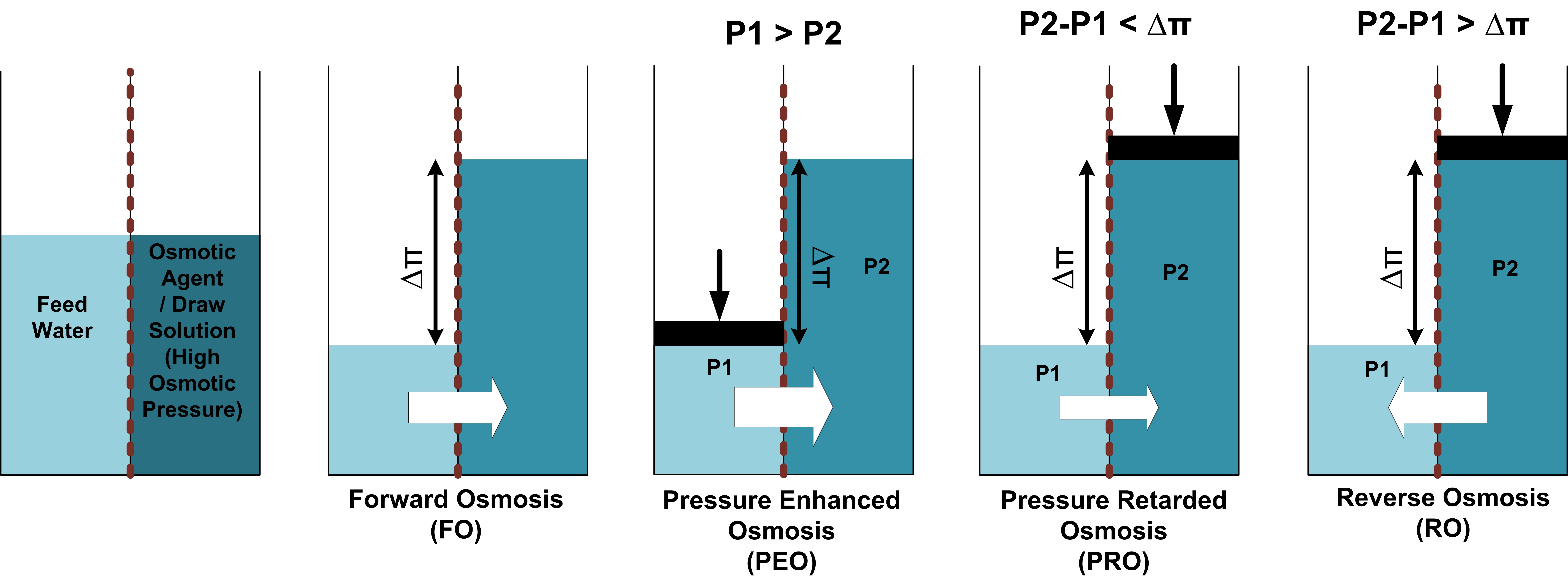 Simple diagram showing osmotic processes, including osmosis, forward osmosis, pressure enhanced osmosis, pressure retarded osmosis and reverse osmosis.